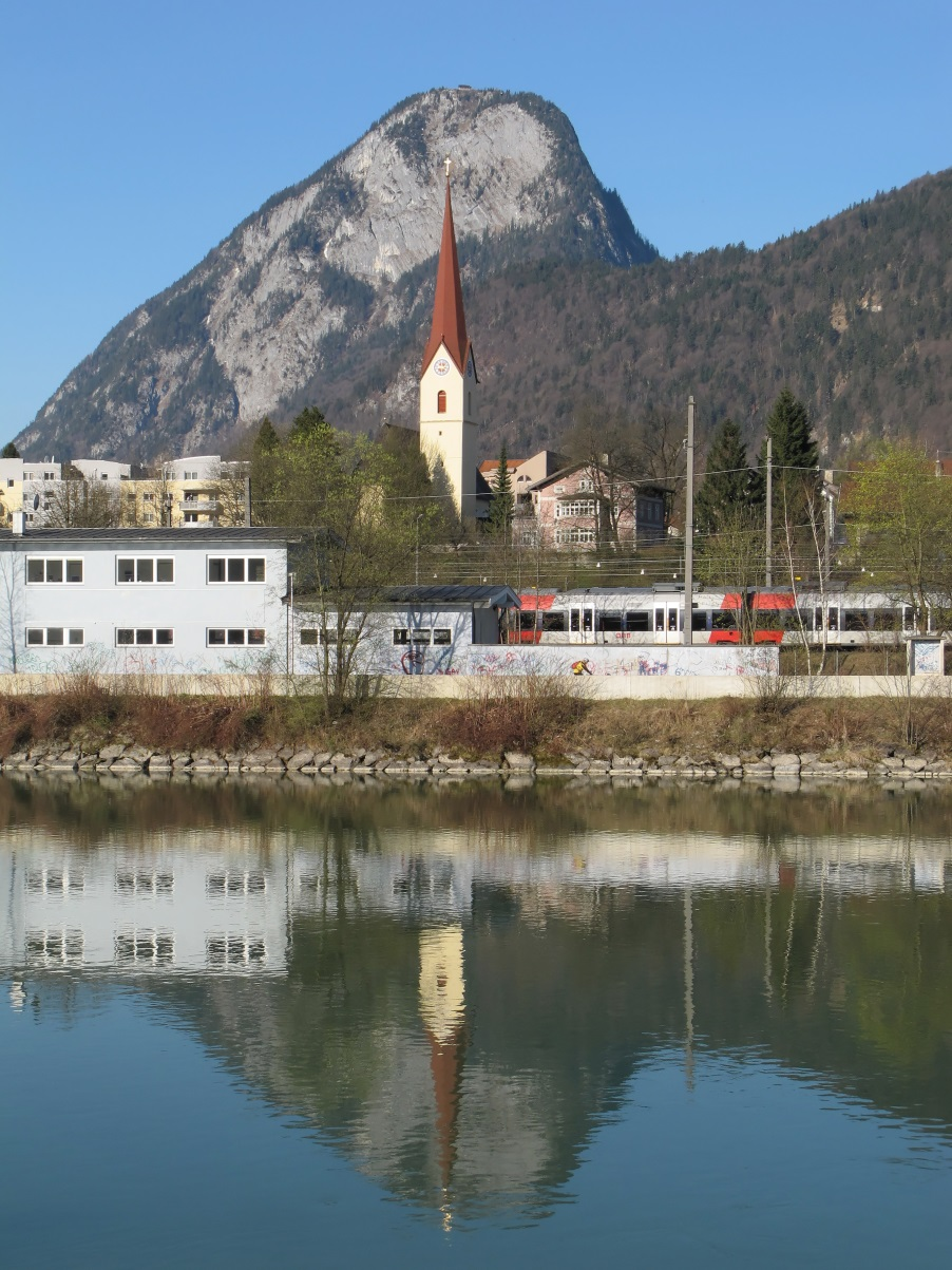 City Kufstein, Western Bank River Inn, Mountain "Pendling" with Church St.Martin